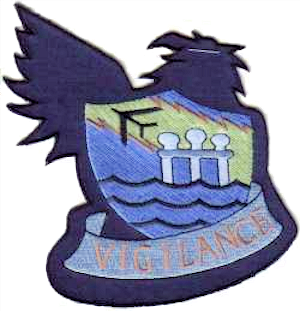 Patch of the USAF Texas Tower 2 offshore radar station